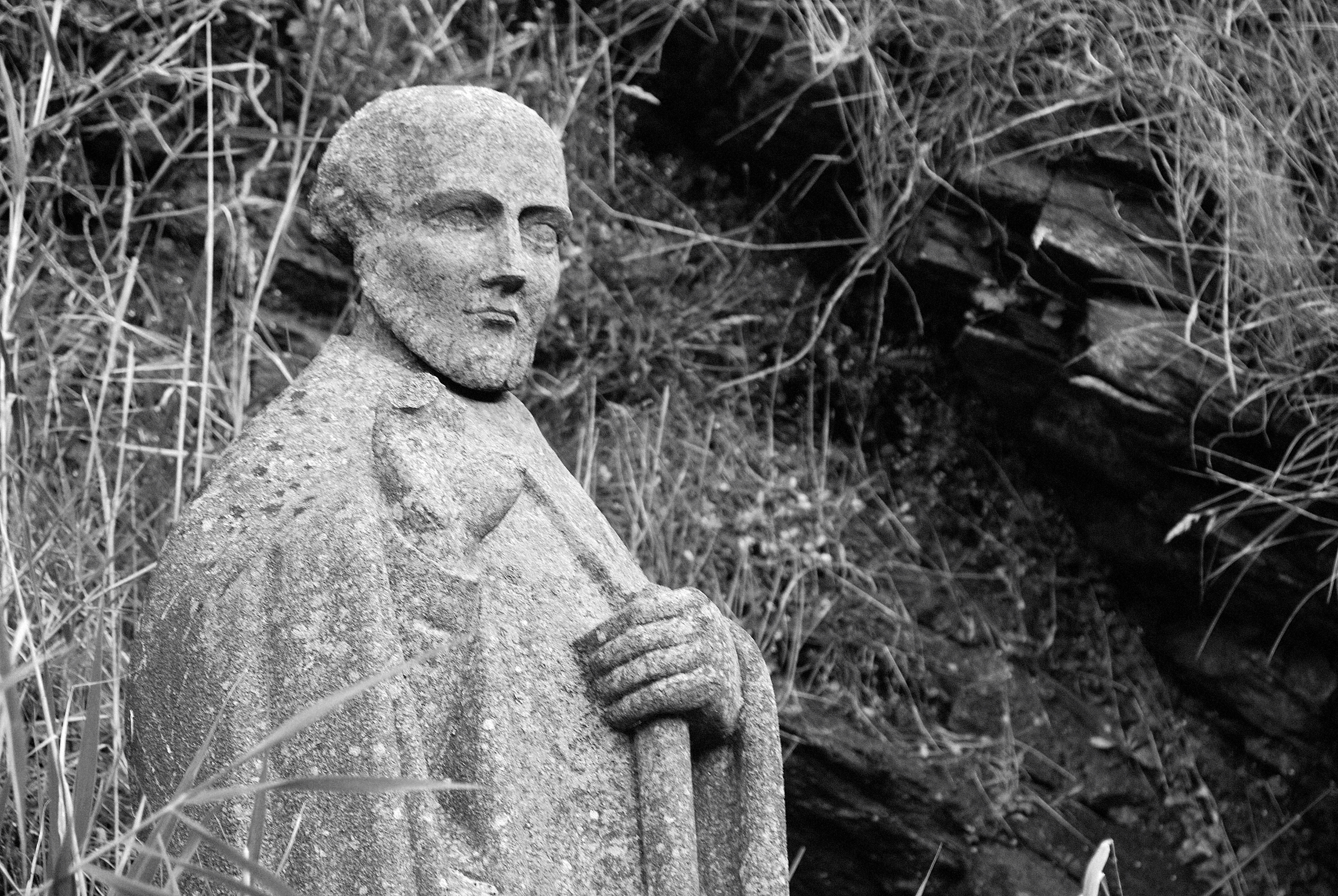 Saint-Gildas-de-Rhuys: Statue of Saint-Gildas. It on the shore line in a small bay near the "Grand-Mont" (Morbihan, France)